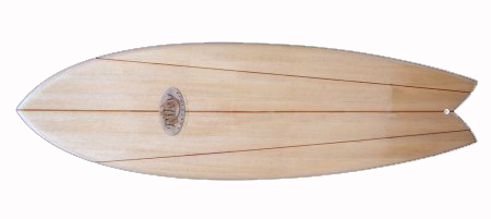 This is a 180 cm (6 ft) fish shaped surfboard from Riley Classic Balsa Surfboards and this picture was taken on Oct. 2nd 2007. This picture should appear in the balsa surfboards article. by Balsalover